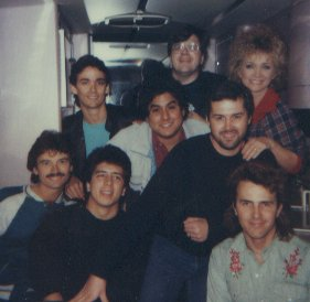 Barbara in the bus with her DoRite band 'Moments' tour 1986